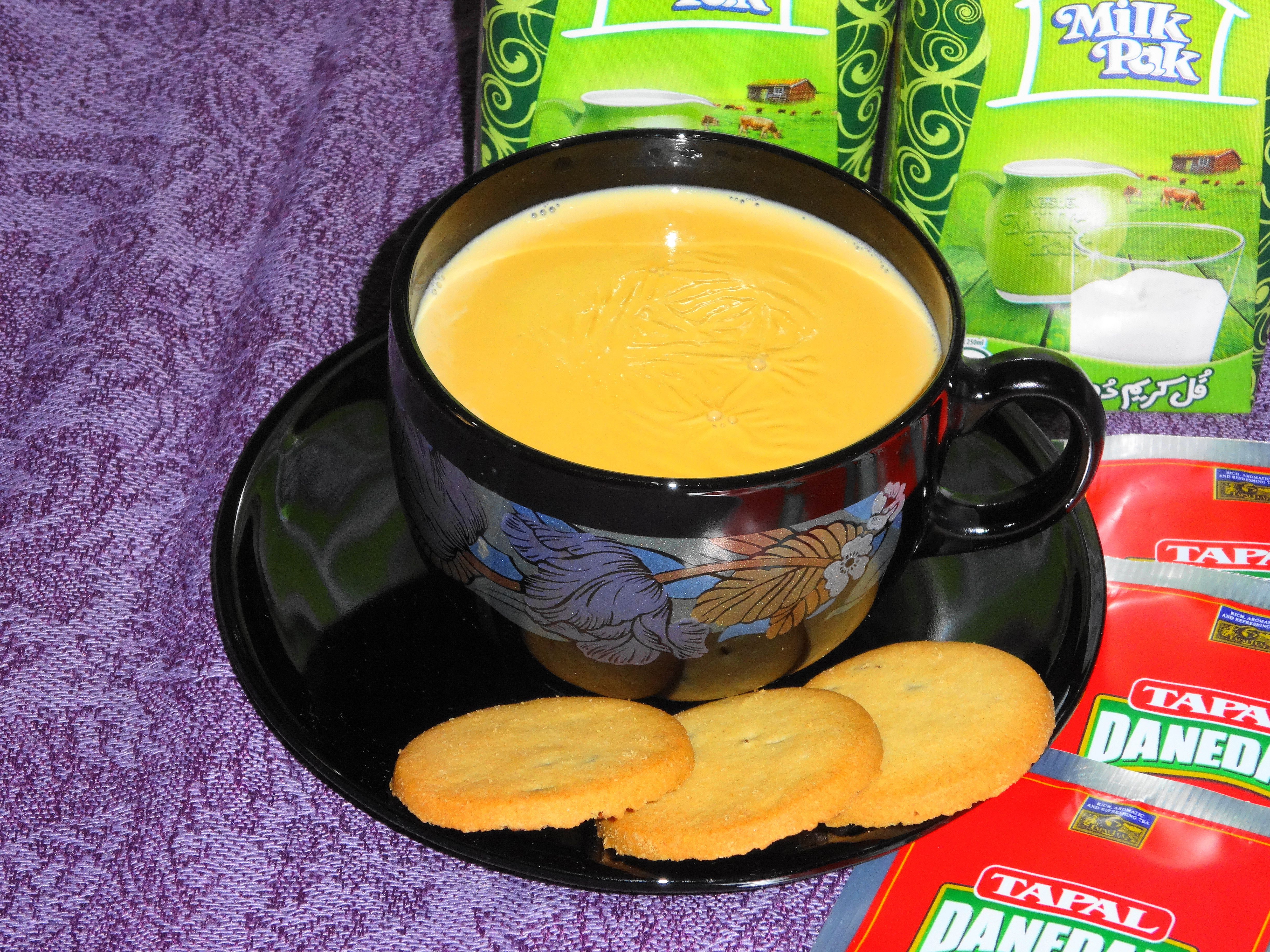 Milk Tea, دودہ پتّی چائے